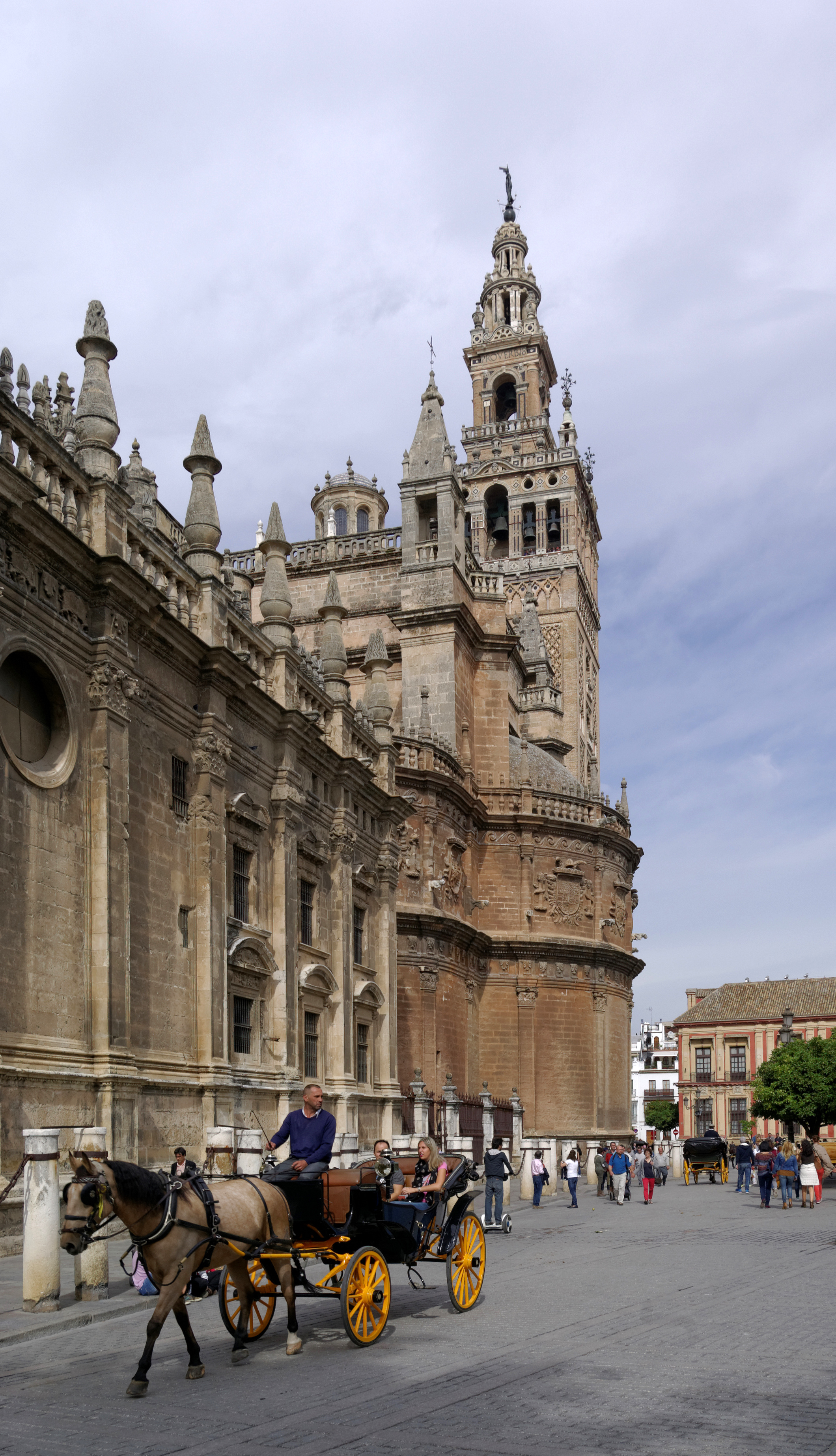 Spain, Sevilla, Cathedral of Seville, east facade